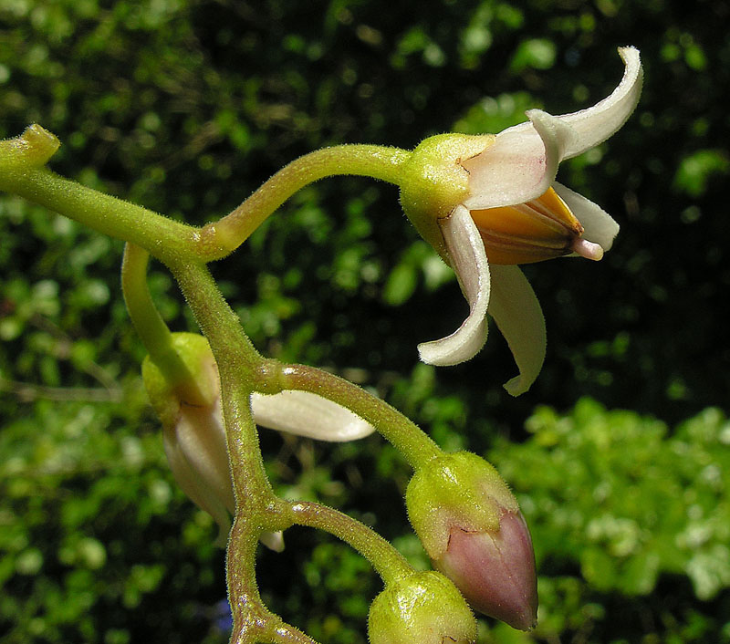 Native to the northern Andes, where the fruit is called Tamarillo. San Francisco Botanical Gardens. In context at